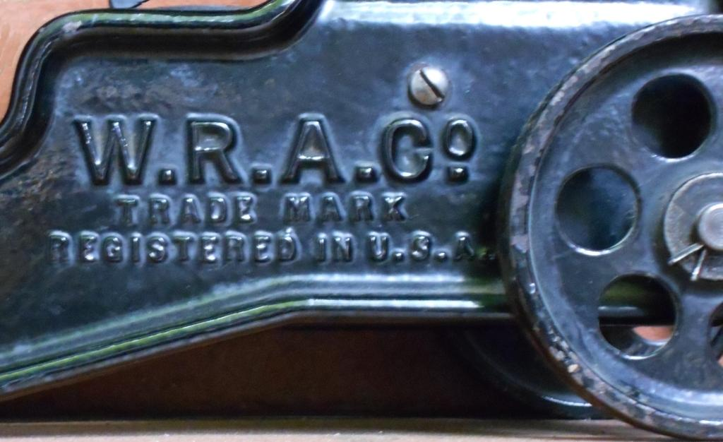 Cannon WRA inscription